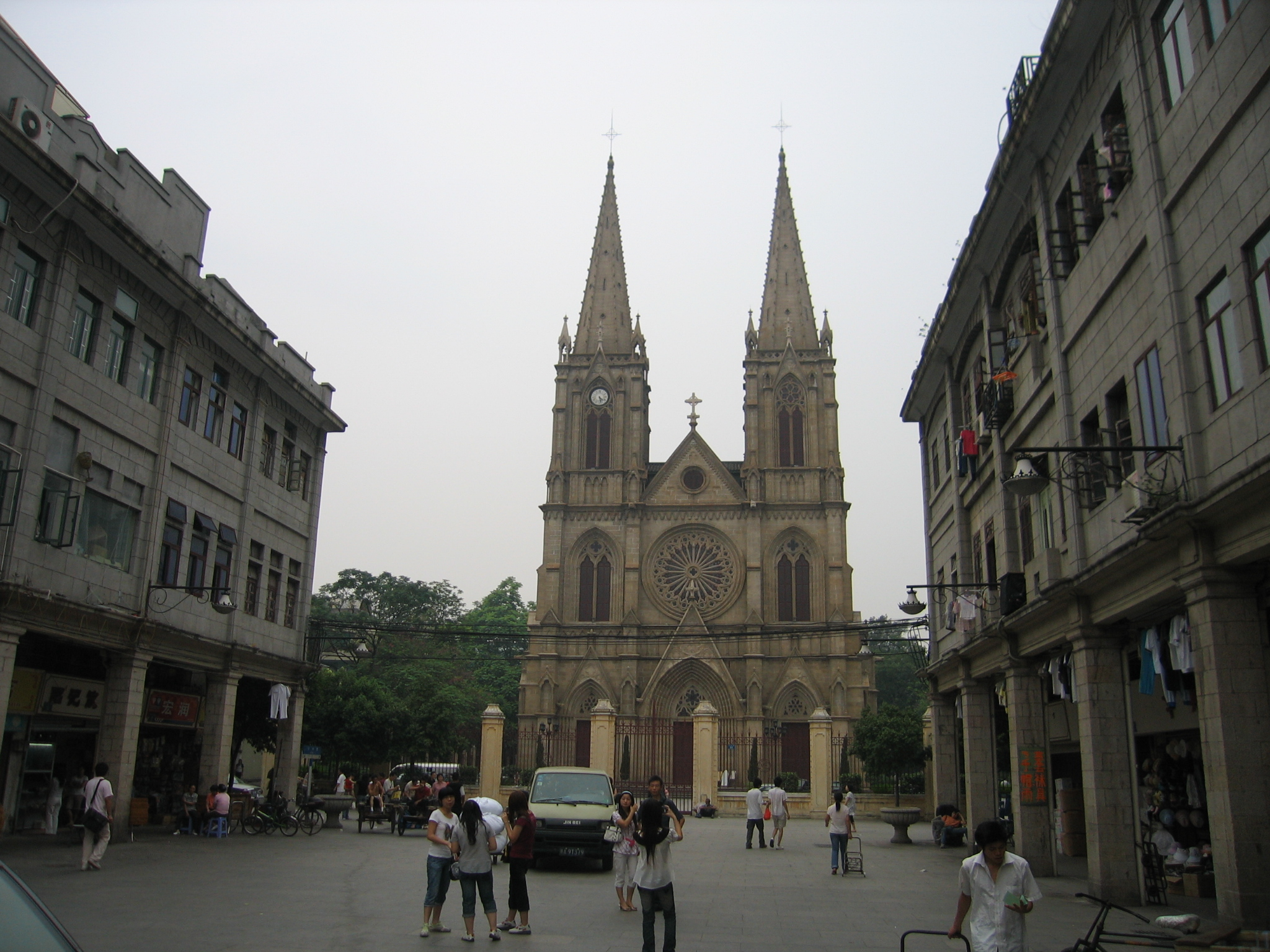 Cathedral of the Sacred Heart (or Stone Church) in Guangzhou.